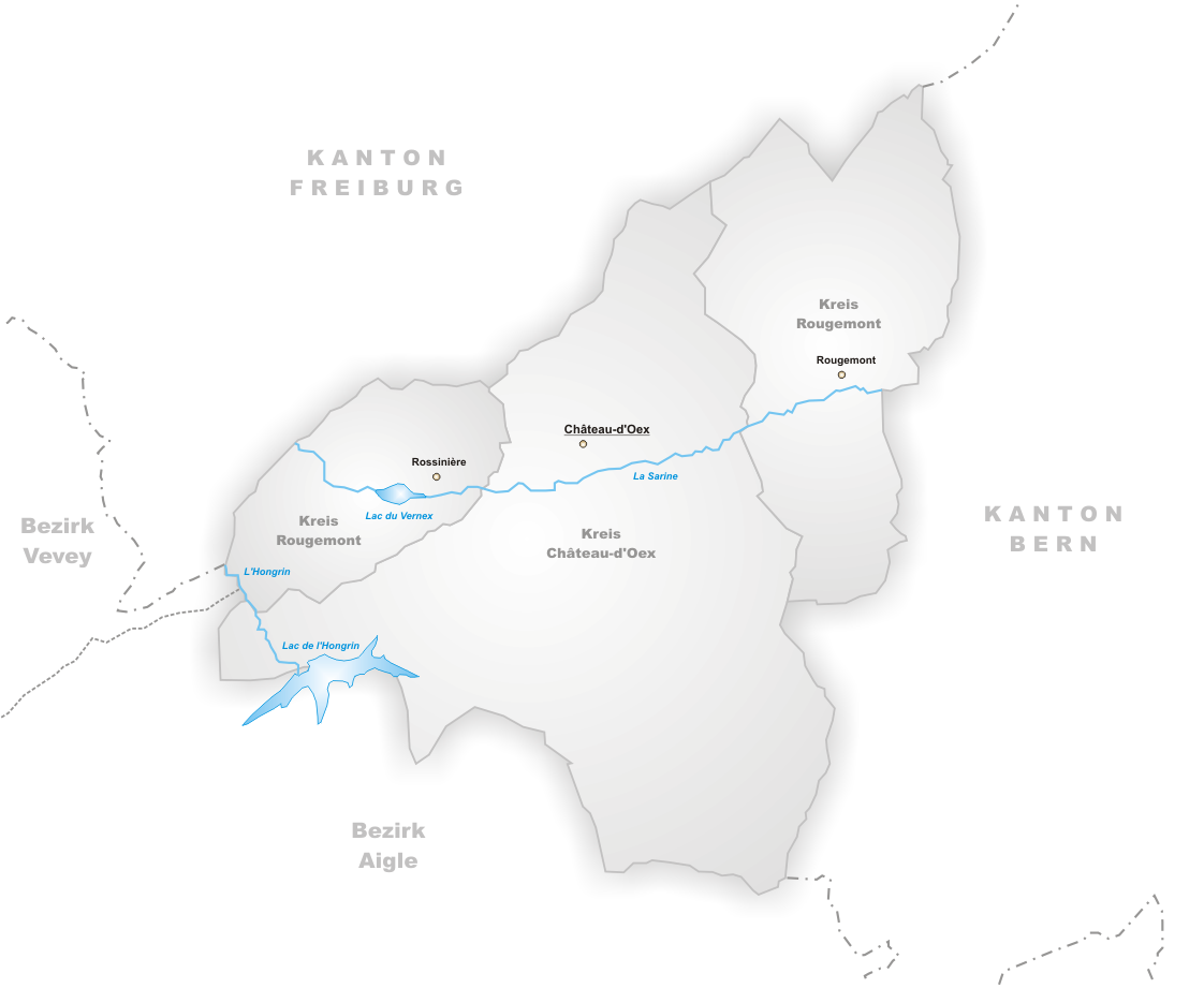 Municipalities of District Pays-d'Enhaut until 2007